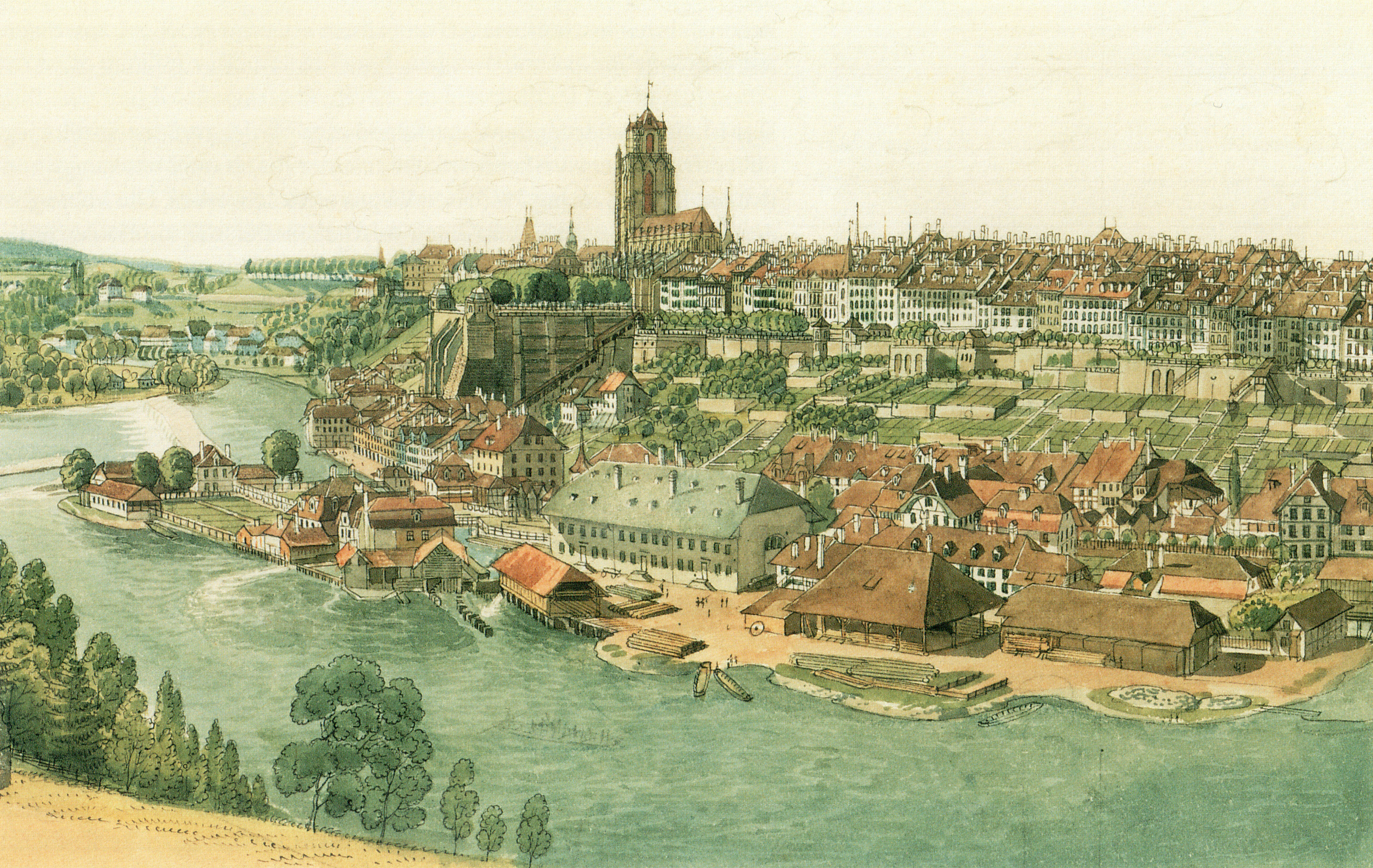 The old town of Berne seen from the Muristalden, watercolour.